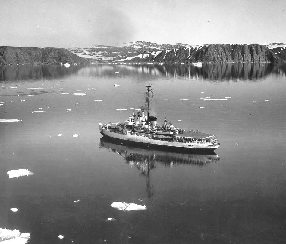 United States Coast Guard icebreaker USCGC Westwind (WAGB-281) approaching U.S.C.G. LORAN Station Cape Atholl, Greenland (1964). Source United States Coast Guard: Ice Breakers - A Historic Photo Gallery